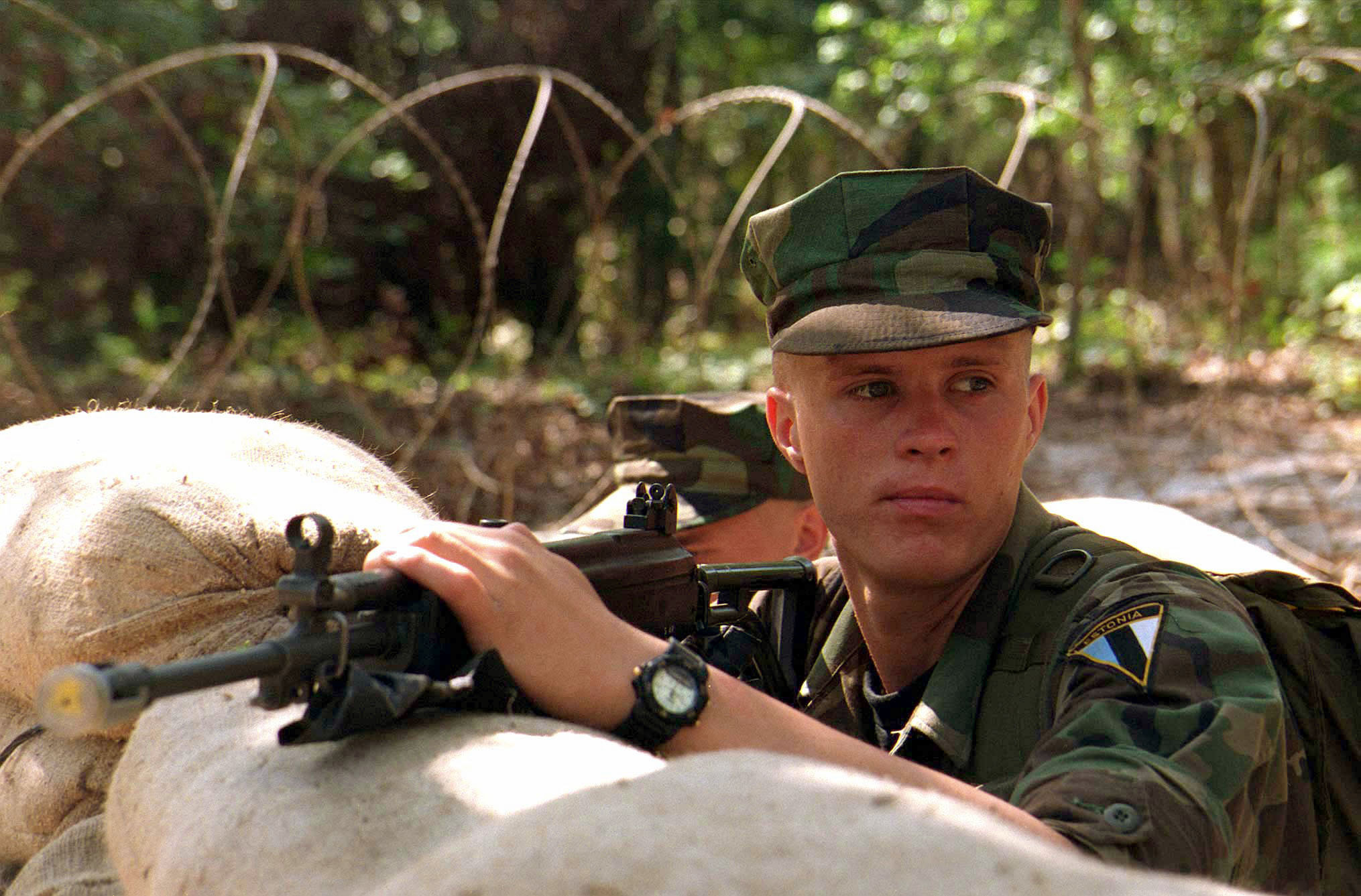 An Estonian soldier armed with an Galil AR carbine Original caption An Estonian soldier armed with an Galil SAR rifle keeps an eye out for suspicious behavior from motorists passing through his roadblock during Situational Training Exercise 5, Check Point Operations/ Weapons Disarmament, COOPERATIVE OSPREY 96. Cooperative Osprey is a United States Atlantic Command sponsored exercise, that is conducted by Marine Forces Atlantic at Camp Lejeune, North Carolina. Cooperative Osprey, under the Partnership for Peace program, will provide interoperability training in peacekeeping and humanitarian operations along NATO/IFOR standards, with an emphasis on individual and collective skills. The three NATO countries providing troops are the United States, Canada, and the Netherlands. The 16 "Partnership for Peace" nations contributing troops are Albania, Austria, Bulgaria, Estonia, Georgia, Hungary, Kazakhstan, Kyrgystan, Latvia, Lithuania, Moldova, POLAND, Romania, Slovak Republic, Ukraine, and Uzbekistan. In addition, the following countries are providing observers to the exercise: Azerbaijan, Belarus, Czech Republic, and Denmark. Location: MARINE CORPS BASE, CAMP LEJEUNE, NORTH CAROLINA (NC) UNITED STATES OF AMERICA (USA)